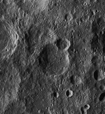 LO3-Frame 3121 . D'Arsonval crater is the smaller-looking crater that has impacted upon the north-eastern sector of the much larger crater, Danjon, seen in the centre of the photo